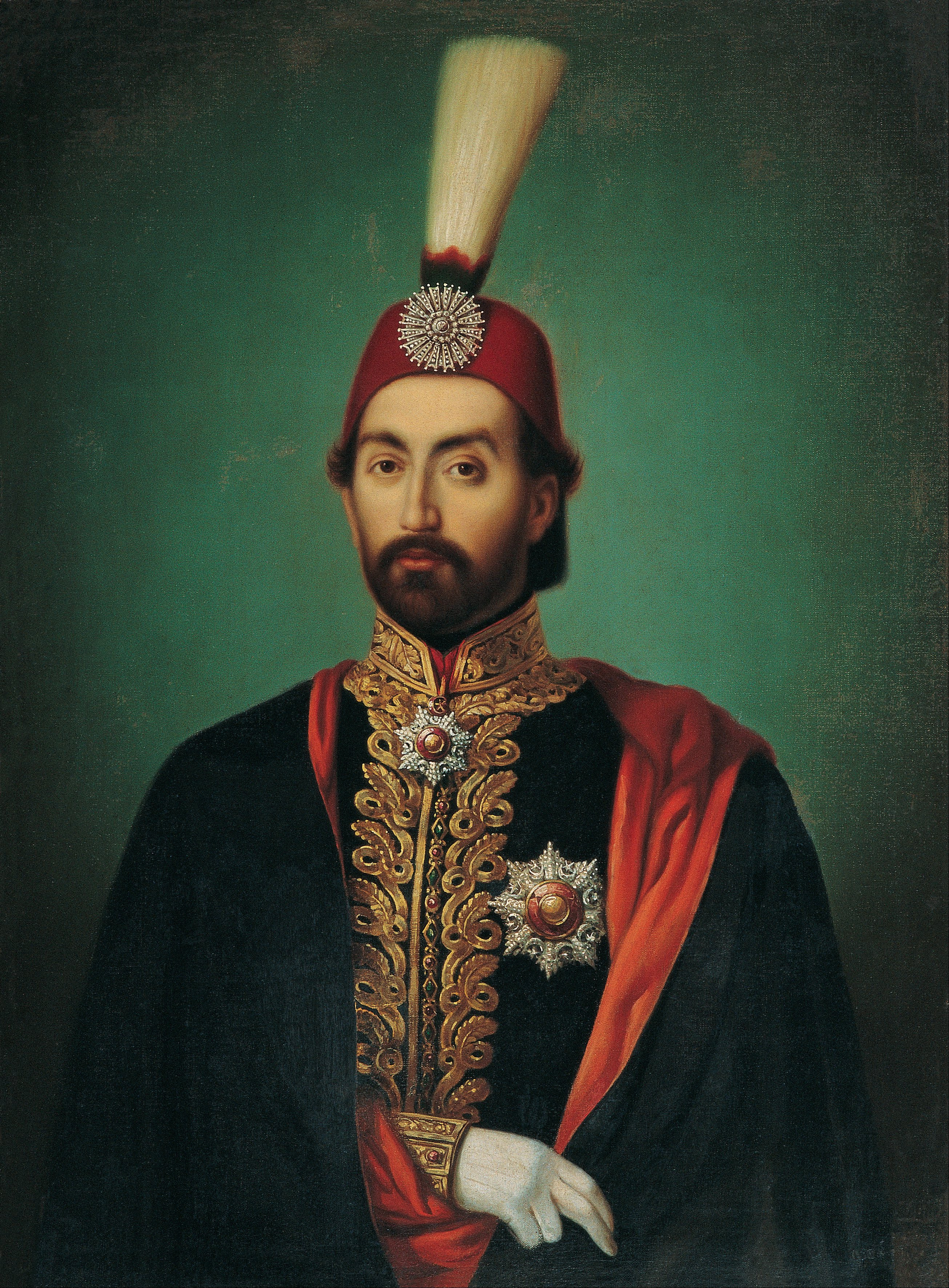 The Sultan has a ceremonial uniform with gold embroidery on his front, collar and sleeves, with the Medal of the Medici order on his chest, and is wearing a fez with aigrette. There are many half length portraits of Abdulmecid, done by French painter Jean Portet or the Ottoman painters Sebuh or Ruben Manas. The Manas brothers were appointed to the Paris embassy as translators and many portraits were commissioned to them for the Ottoman embassies in Europe. This portrait could be one of those, or a later copy of the portraits painted by Portet or Manas brothers.